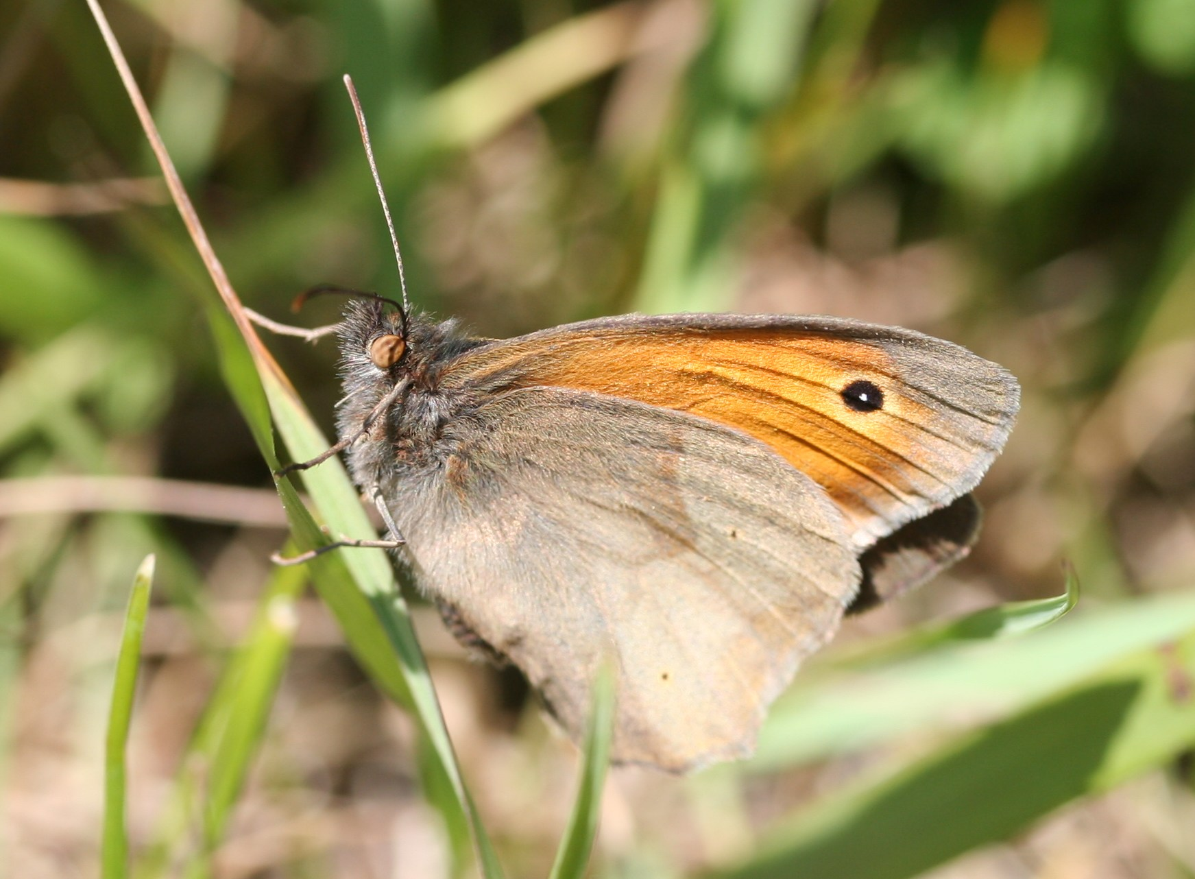 Maniola_jurtina 17 June 2006 IJmuiden, the Netherlands